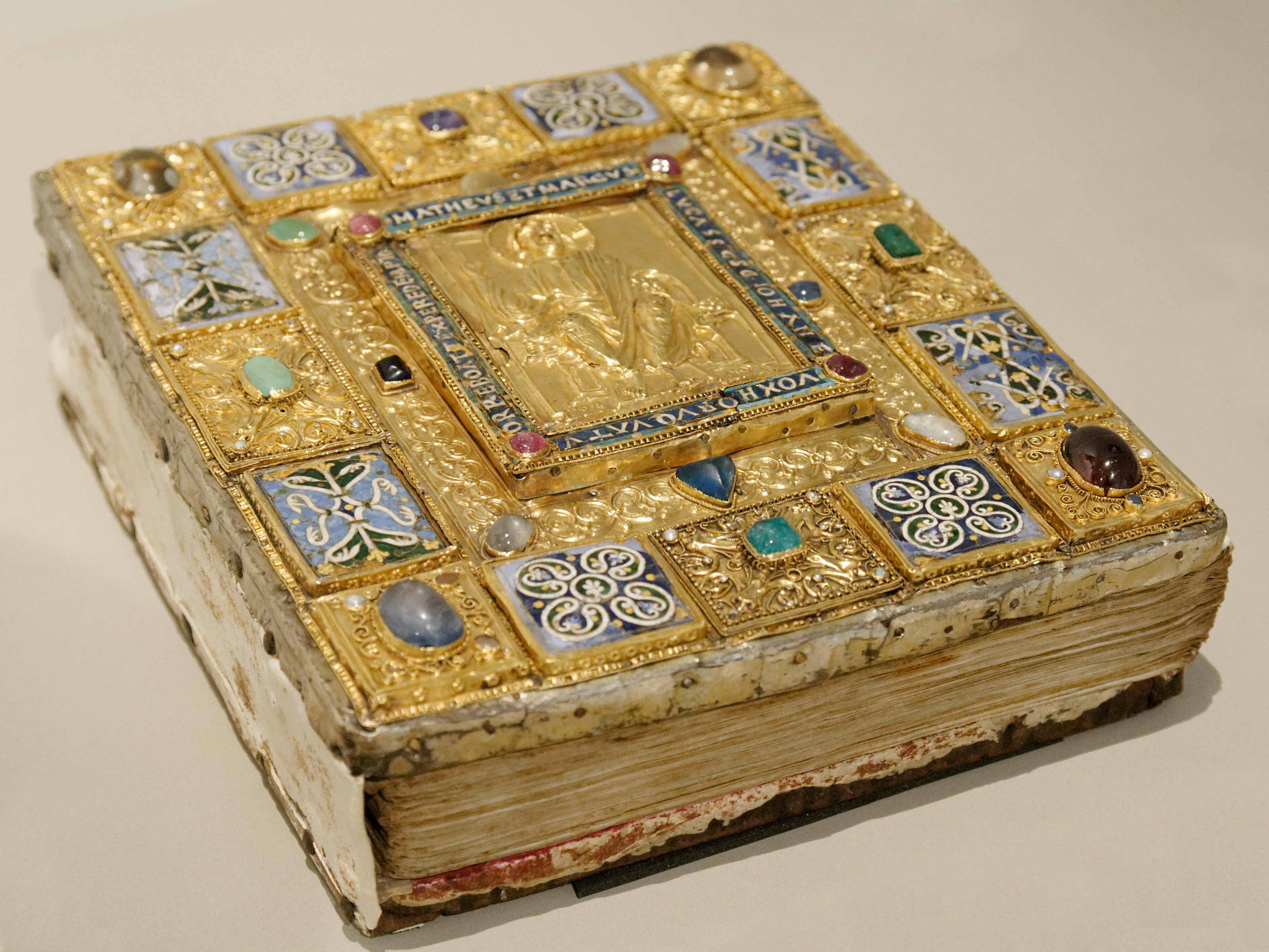 Cover of the so-called Sion Gospels, German artwork, perhaps from Trier.